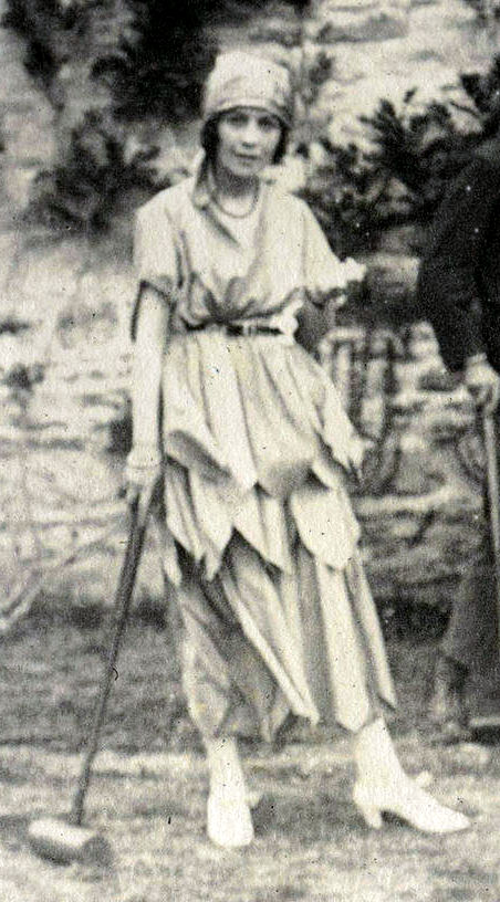 Vivienne Haigh-Wood) Eliot (1888–1947)